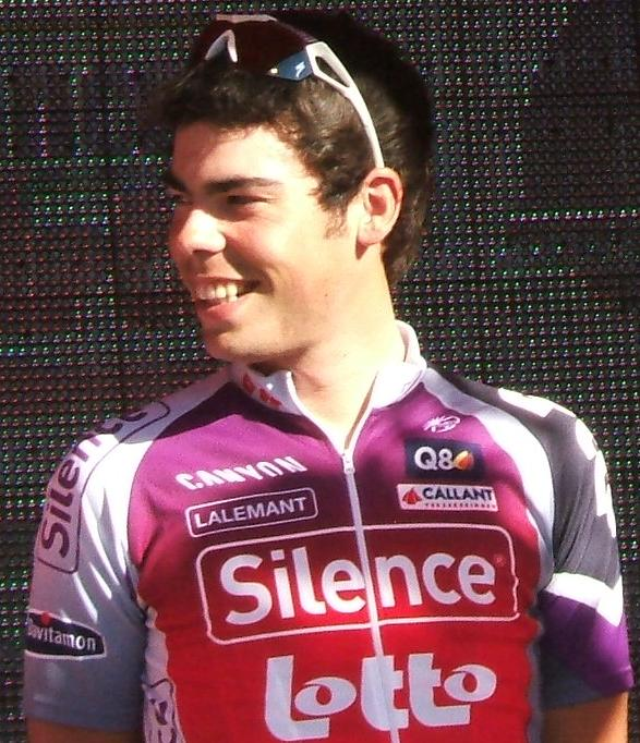 Named cyclist at the en:2009 Tour Down Under team presentation